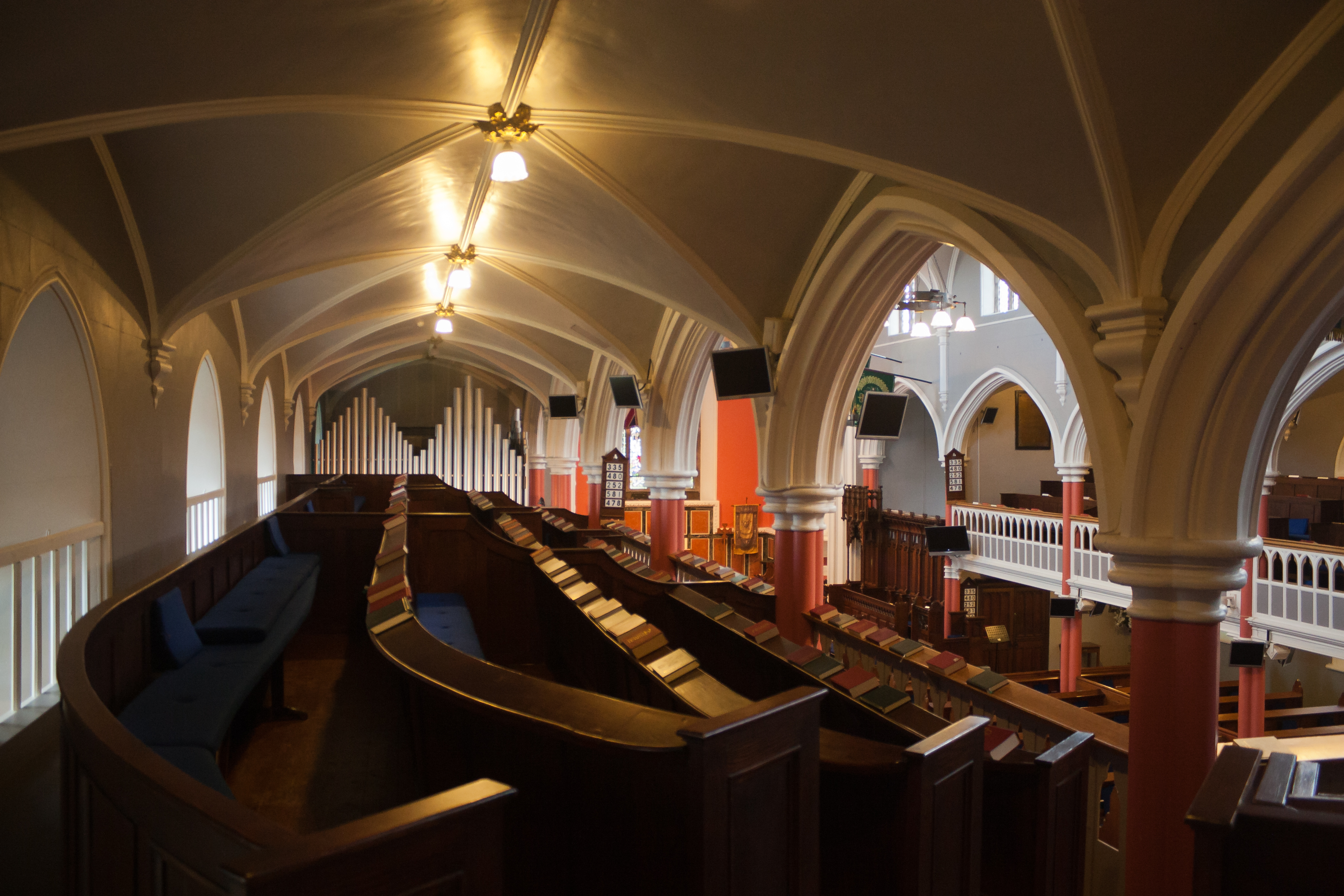 Gallery in north aisle.